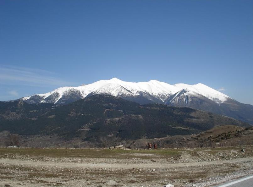 Mountain Olympus snowy, west view. Greece.